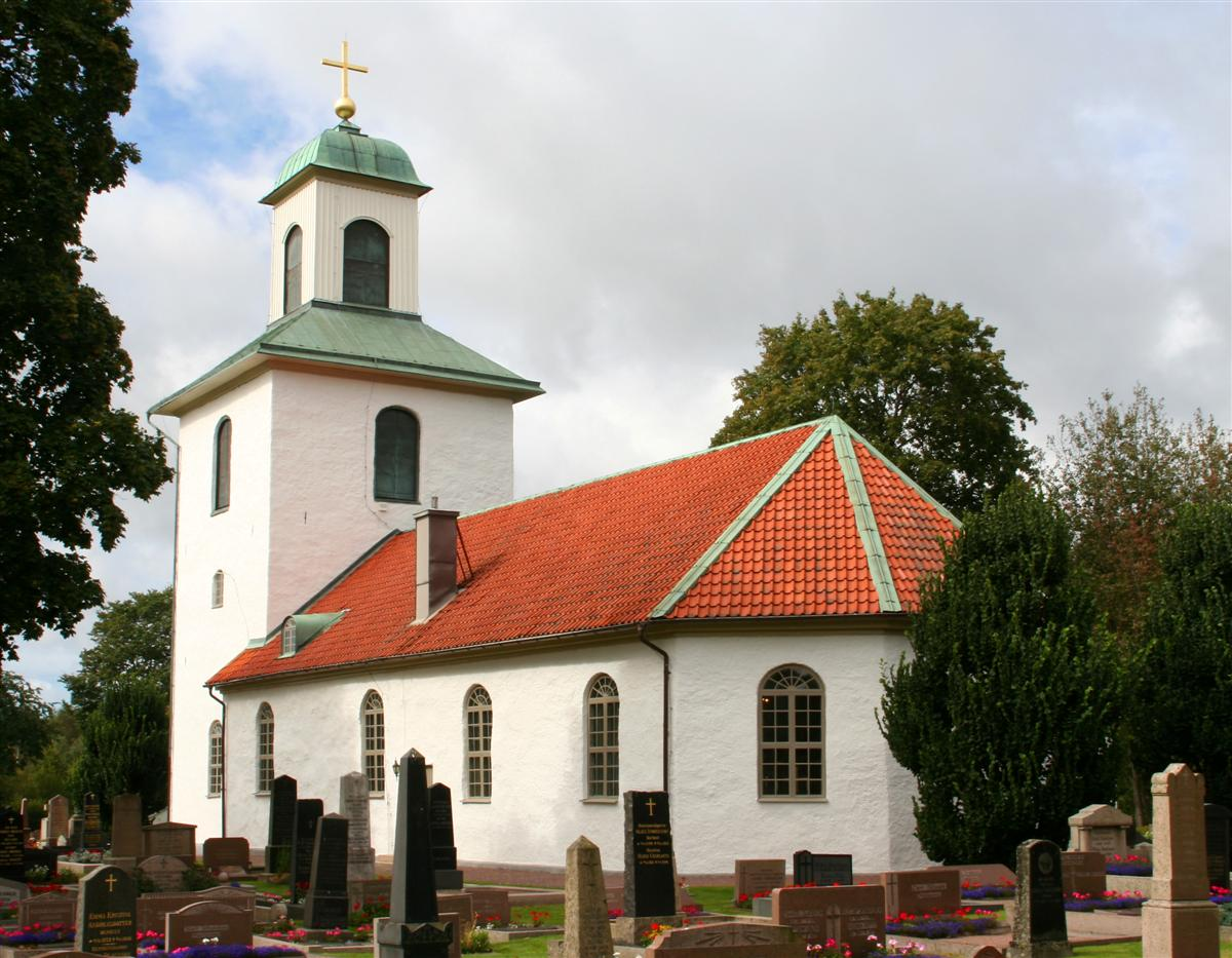 Landvetter Church